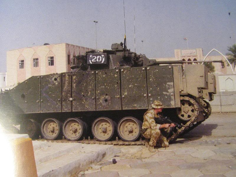 Chobham armour on the warrior IFV with deep holes from RPG-7 warheads.